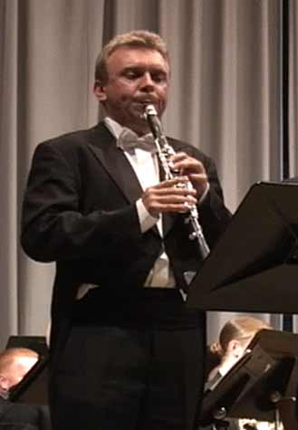 Zenon Kitowski, a clarinetist from Poland.